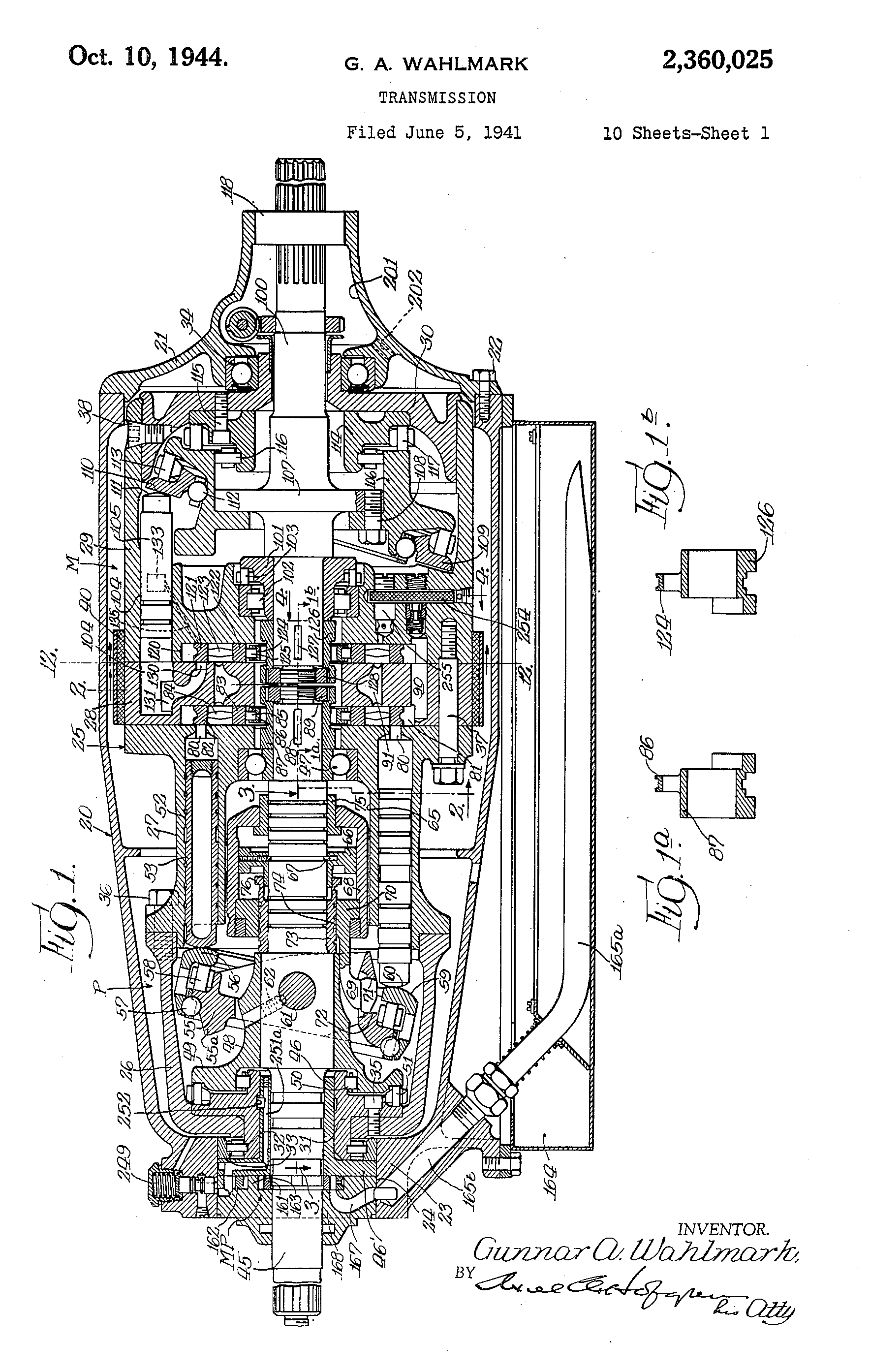 Patent drawing for an automatic hydrostatic transmission for on- and off road vehicles with variable axial piston pump and variable axial piston motor in the same housing, with main pressure/return-oil ports assembled "back-to-back" to form a compact unit without the need for hydraulic tubes or hydraulic hoses. Stepless hydrostatic gear ratio with theoretical max. torque ratio 1:1000.